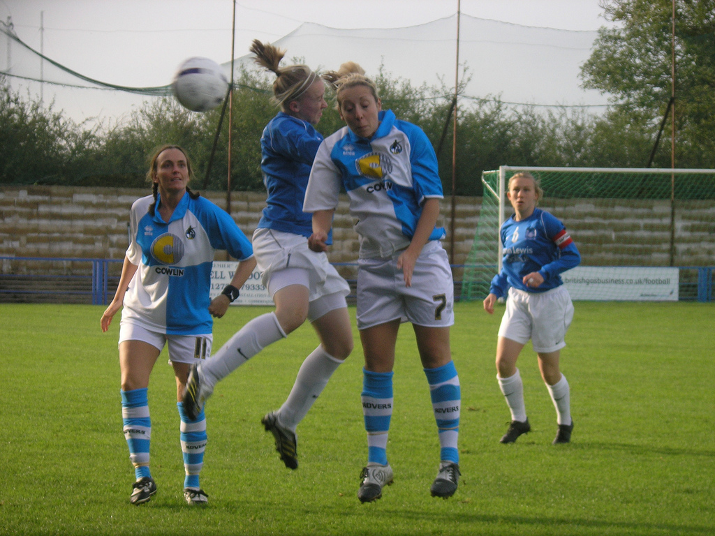 Bristol Academy v Birmingham City in the FA Women's Premier League National Division.